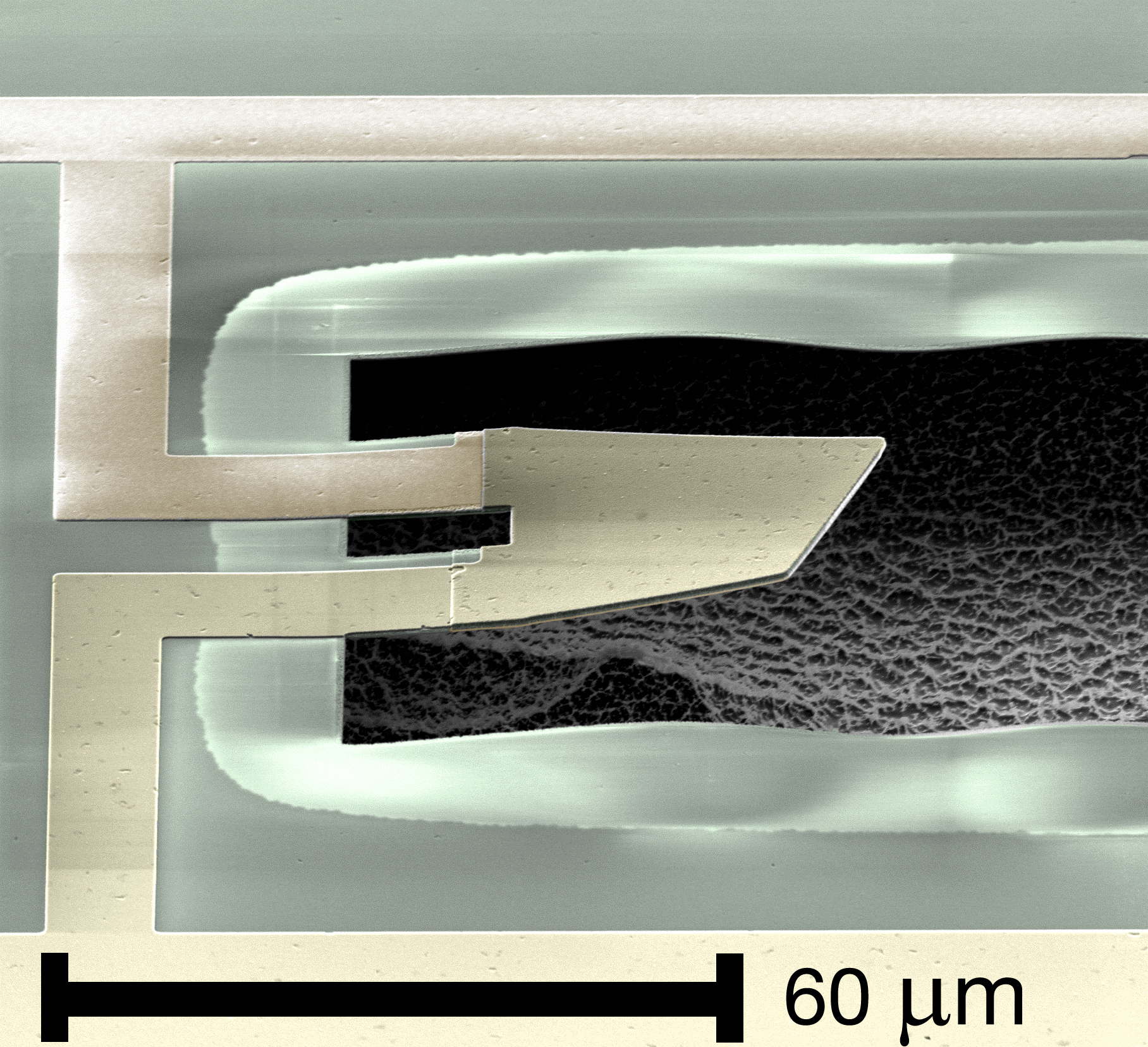 Electron micrograph and electrical measurement of a mechanically suspended resonator. The resonator is supported on the left by the metal leads that form the two electrical connections, with their underlying AlN.